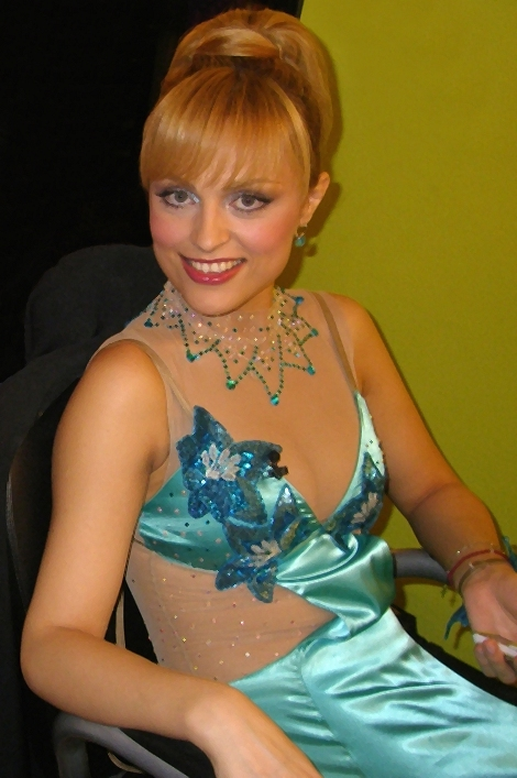 Croatian singer Antonija Šola at Dancing with the Stars